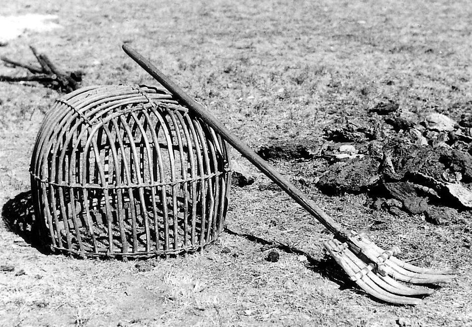 Basket and fork to gathering the dung (fuel in the yurts = traditional Mongolian tents). Sükhbaatar Aimag, Mongolia, 1972.